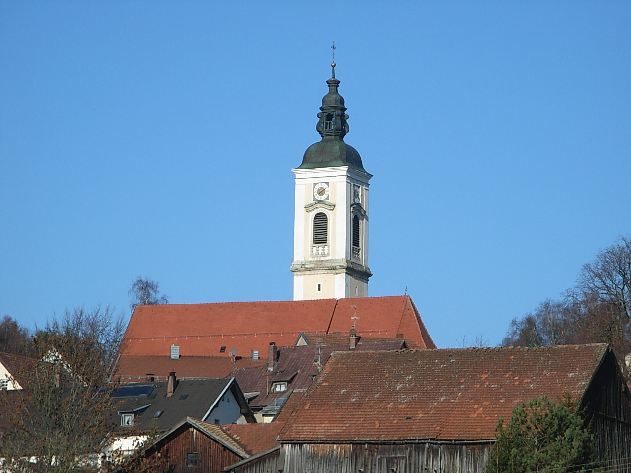 Kirchdorf im Wald, Parish Church of the Immaculate Conception from south-east.